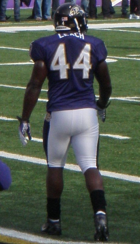 Vonta Leach, fullback for the Baltimore Ravens 2011.